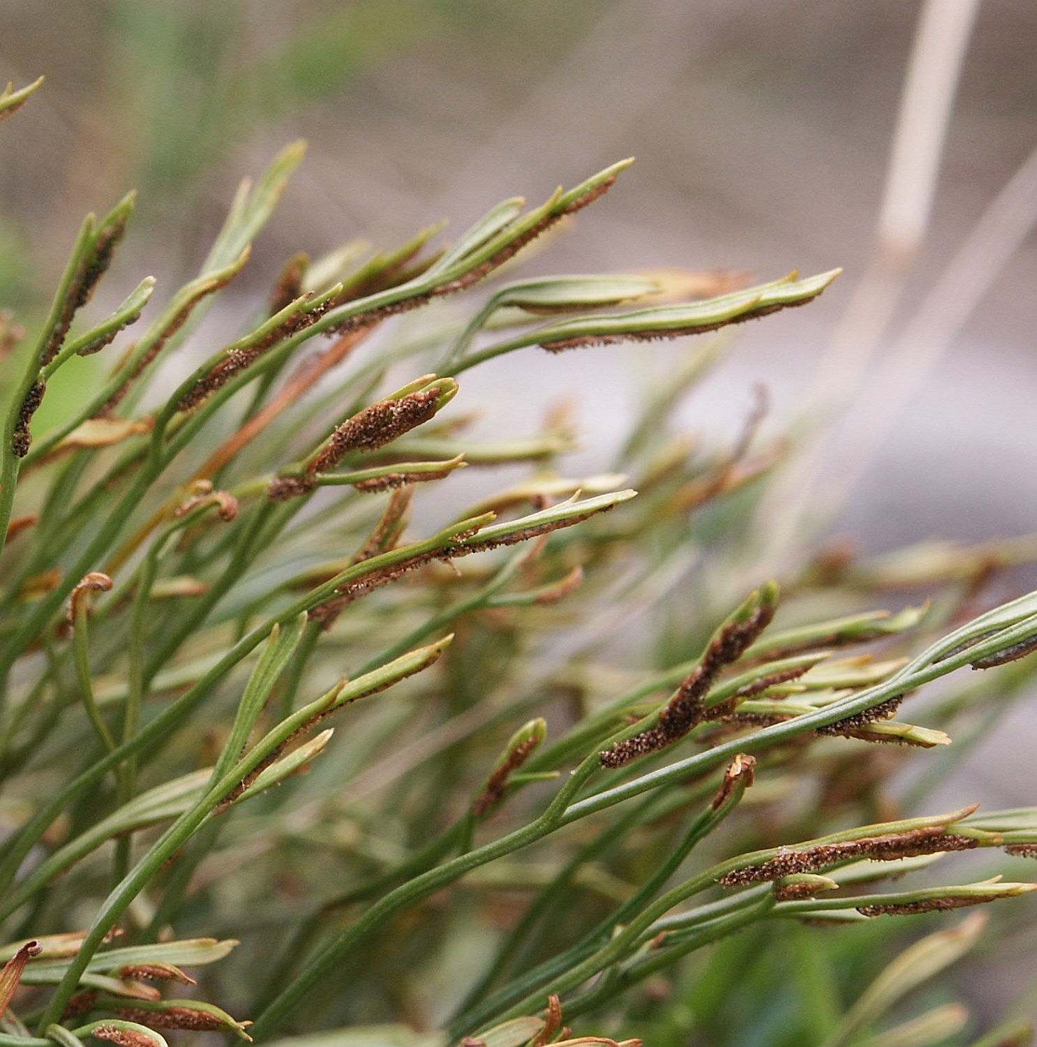 Asplenium septentrionale, Stubaier Alpen, Italy